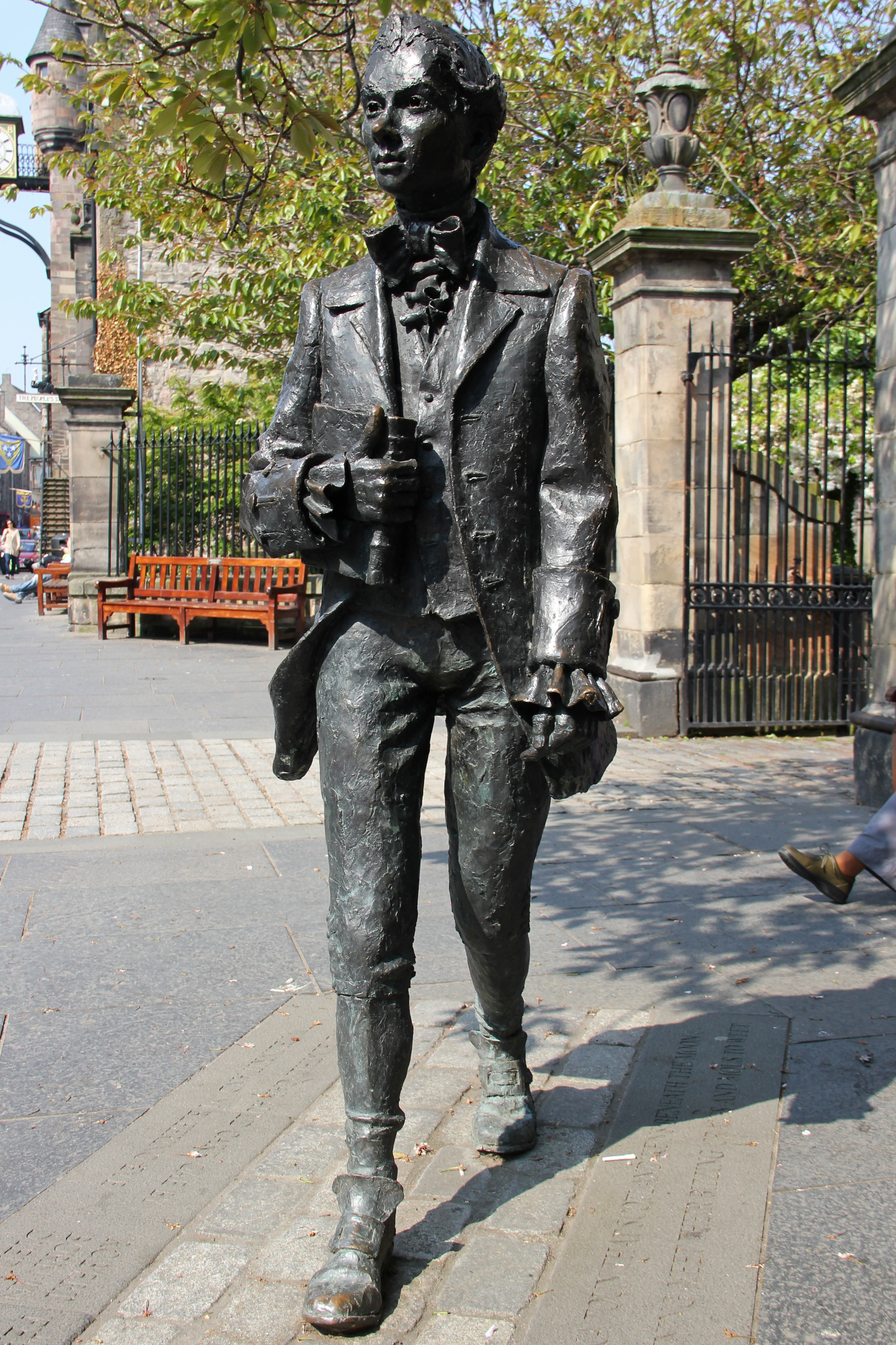 Robert Fergusson statue outside the Canongate Kirk on Edinburgh´s Royal Mile.